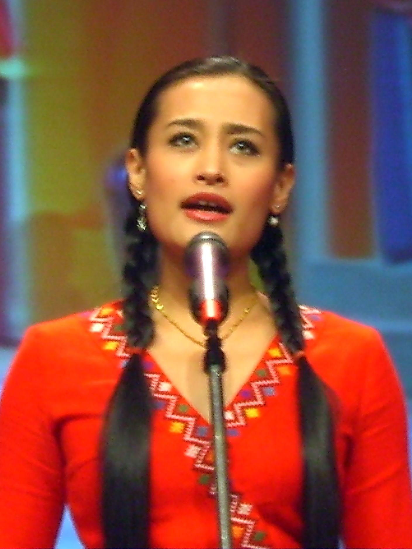 "Samingad" Hsiao-chun Chi at 2006 Taiwan Sports Elite Awards.